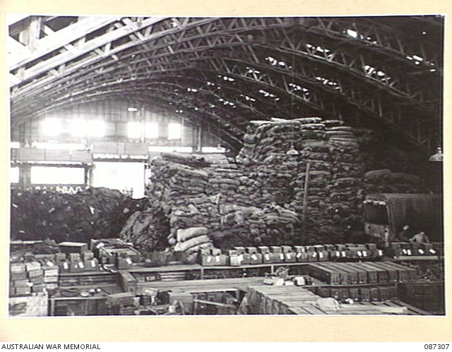 TOLGA, QUEENSLAND. 1945-03-07. AN IGLOO CONTAINING STORES AT 5 RETURNED STORES DEPOT. THE STORES, CLASSIFIED AS SERVICEABLE, RECOVERABLE AND SALVAGE, ARE DEALT WITH ACCORDINGLY.